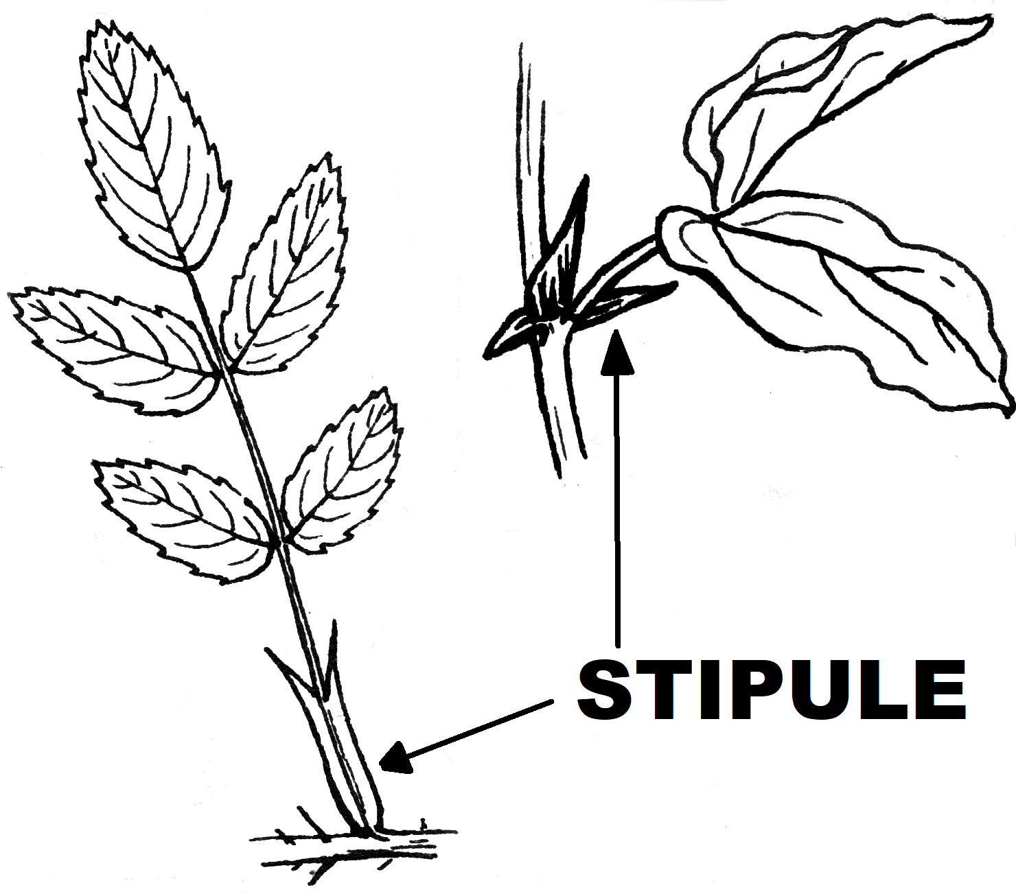 Line art drawing of a stipule